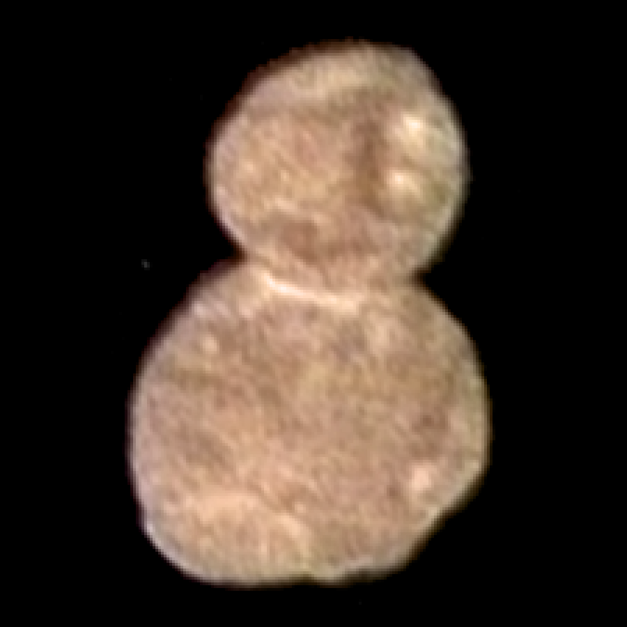 Original caption: The first color image of Ultima Thule, taken at a distance of 85,000 miles (137,000 kilometers) at 4:08 Universal Time on January 1, 2019, highlights its reddish surface. At left is an enhanced color image taken by the Multispectral Visible Imaging Camera (MVIC), produced by combining the near infrared, red and blue channels. The center image taken by the Long-Range Reconnaissance Imager (LORRI) has a higher spatial resolution than MVIC by approximately a factor of five. At right, the color has been overlaid onto the LORRI image to show the color uniformity of the Ultima and Thule lobes. Note the reduced red coloring at the neck of the object.